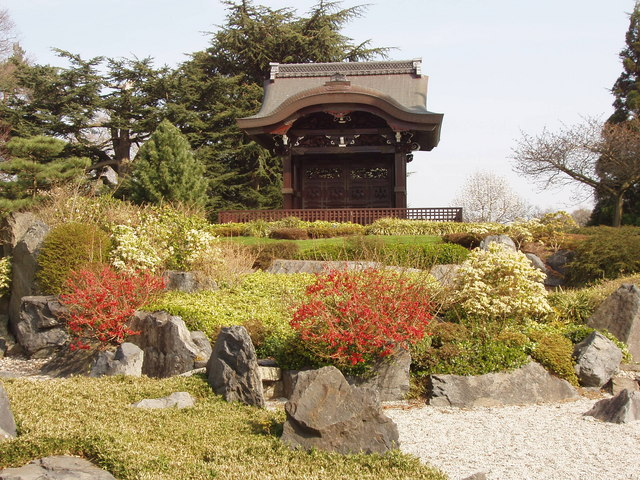 Kew Japanese garden with japonica A view of the Japanese gateway across the garden in which the gravel represents a flowing stream.